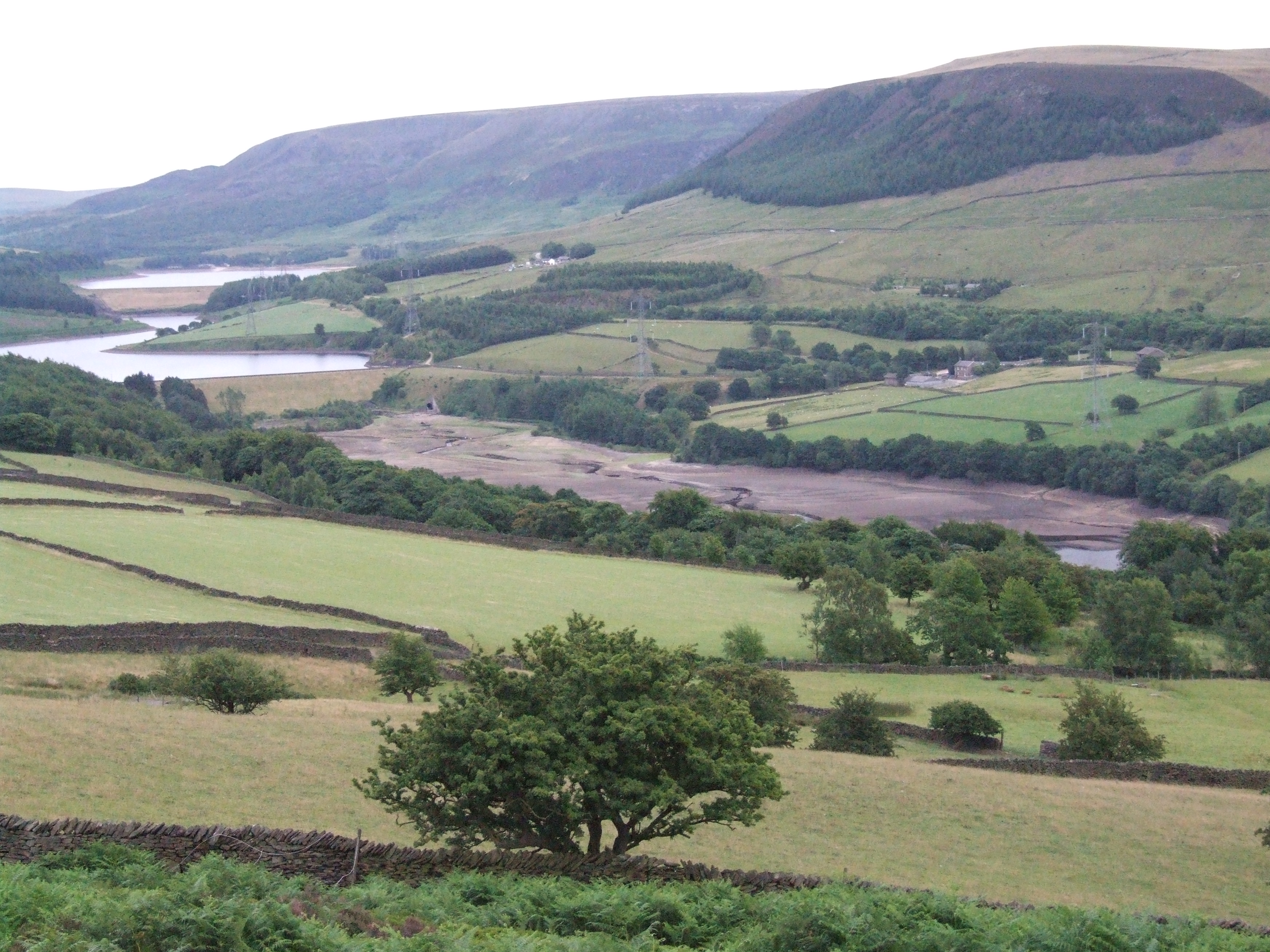 Tintwistle Low Moor is to the north of Longdendale, where the reserviors of the Longdendale Chain provide water for Manchester, and compensation water for the River Etherow During the drought of 2010 Valehouse Reservoir was empty. Rhodeswood behind, then further Torside. Bleaklow in the distance.